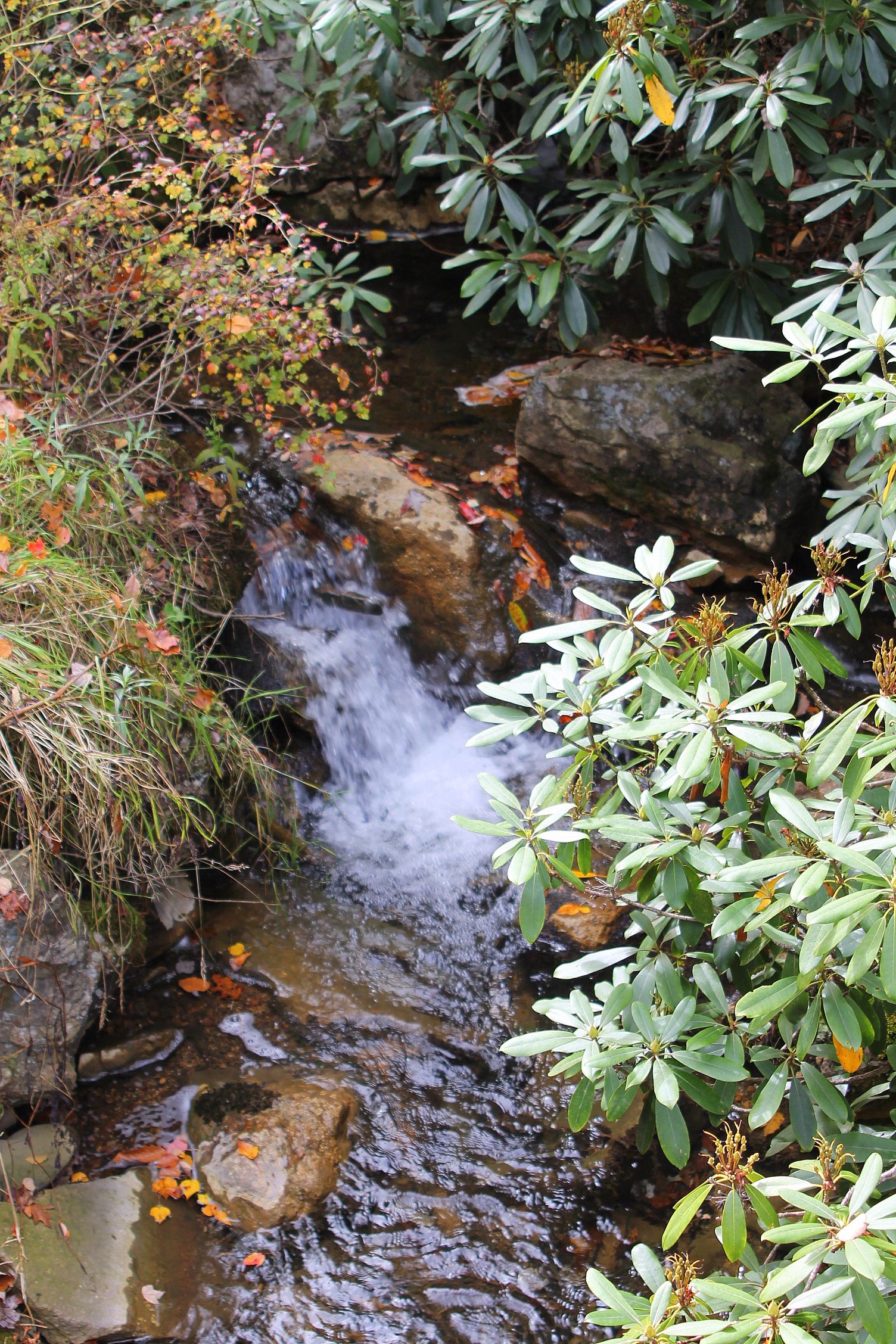 Little Tomhicken Creek looking upstream in its middle reaches. A small waterfall is present.